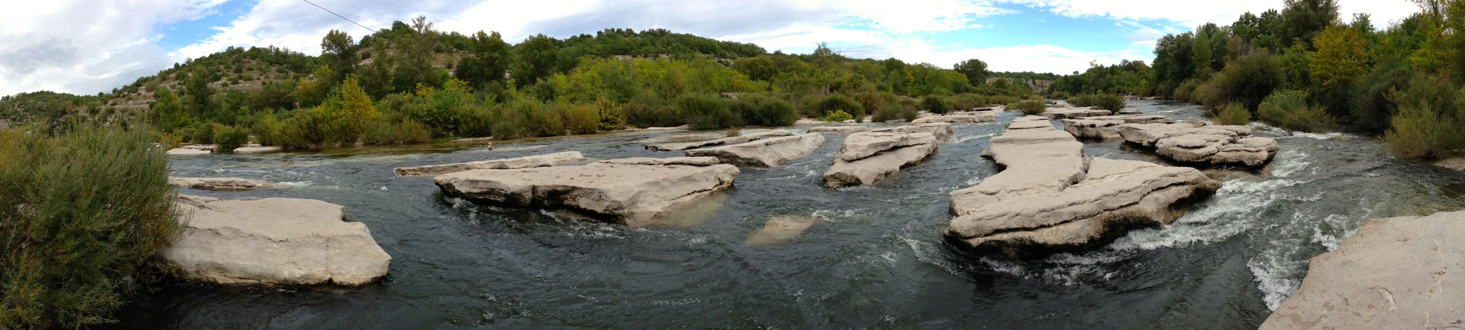 Panoramic view of the river Chassezac in France